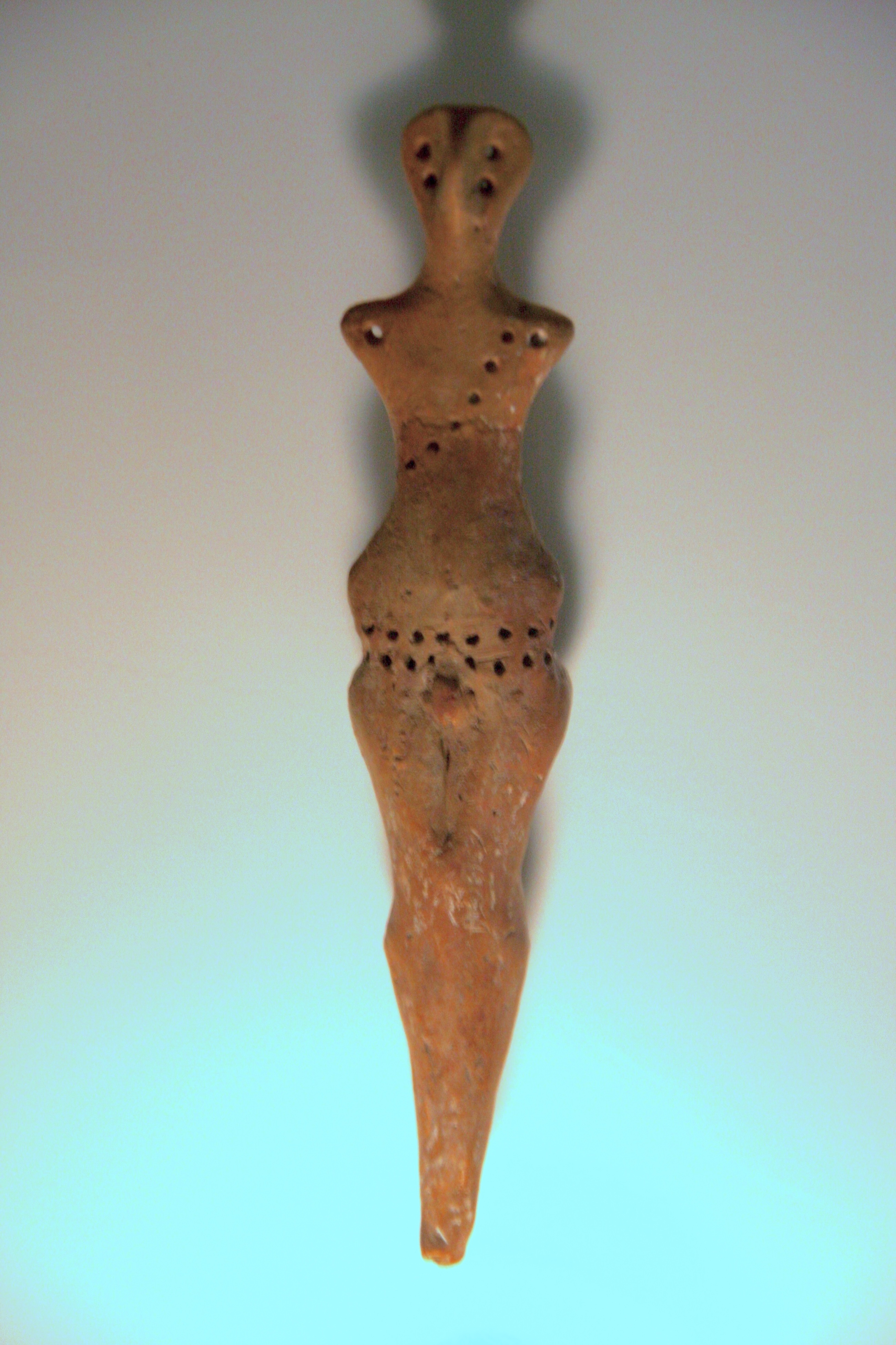 Cucuteni Antromorphic figure